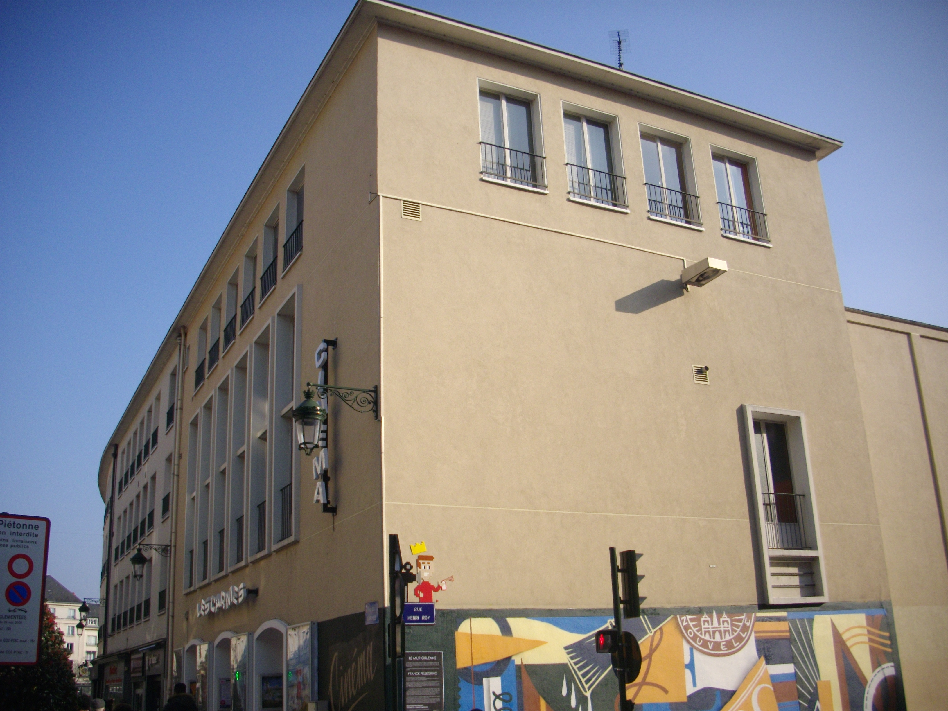 Carmes cinema, in Orléans (Loiret, France)